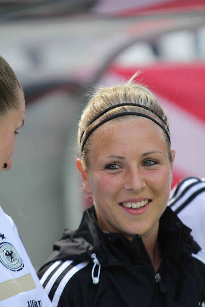 German international footballer Svenja Huth